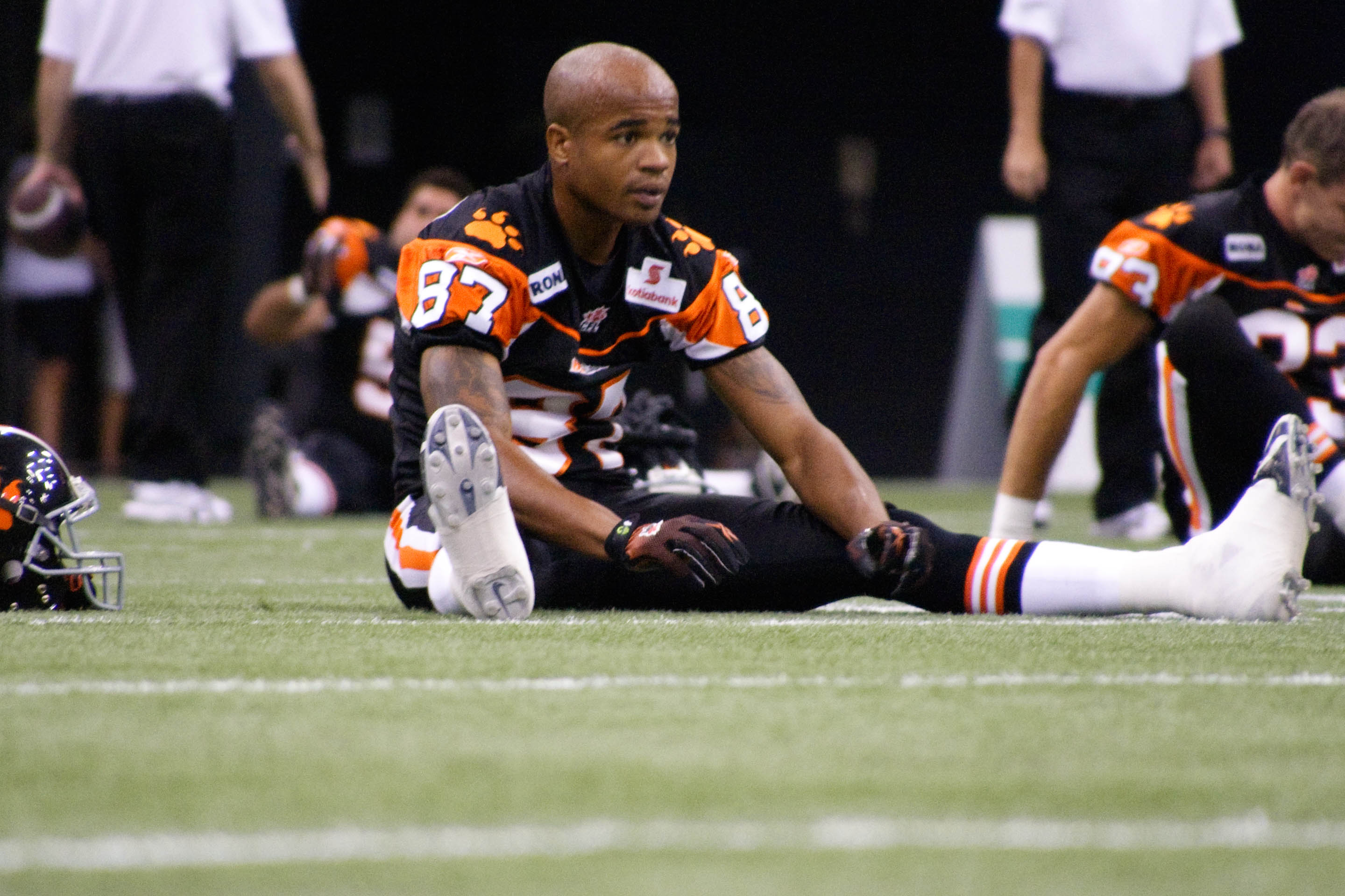 Rufus Skillern stretching before a game on August 7, 2009.